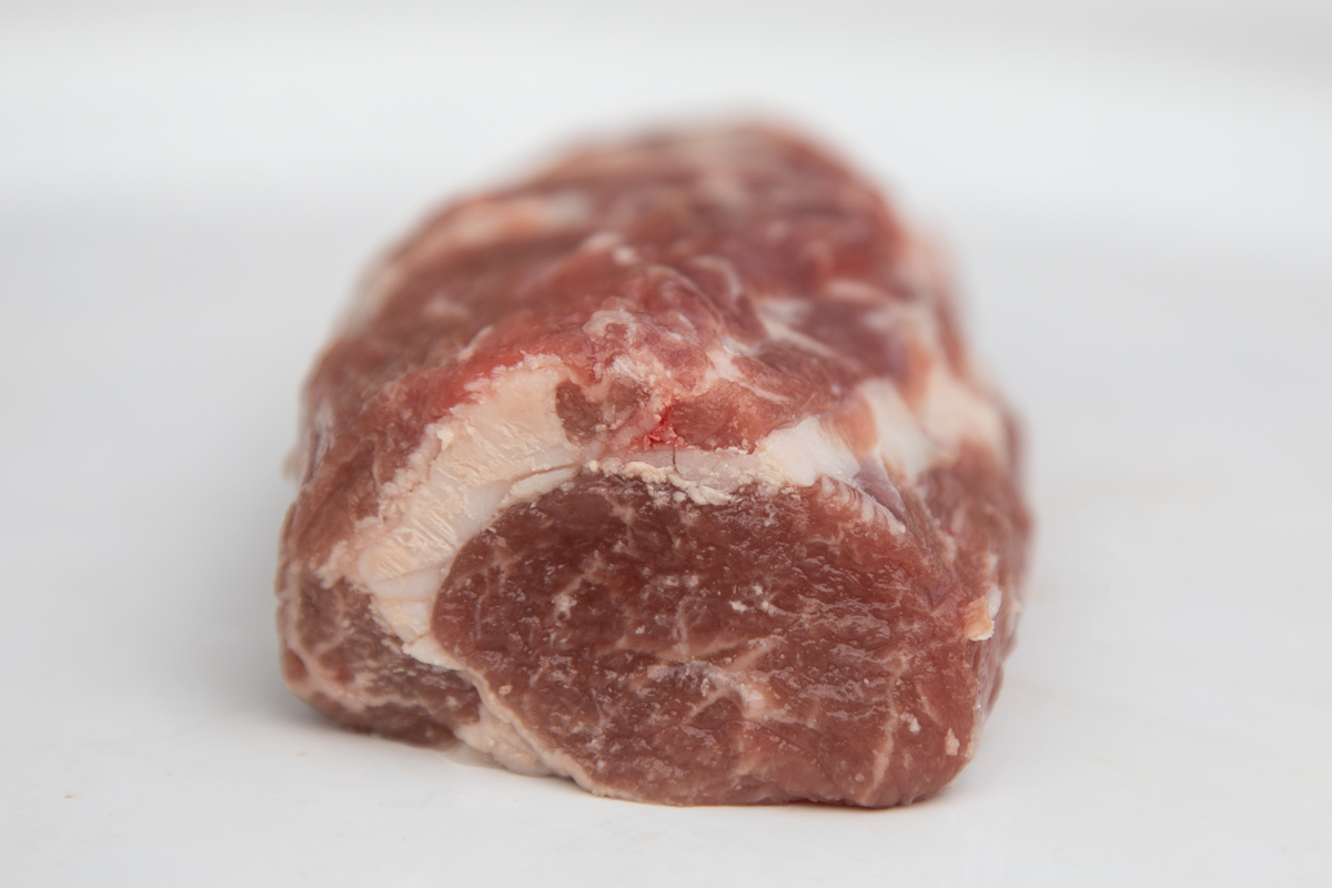 Lamb sirloin